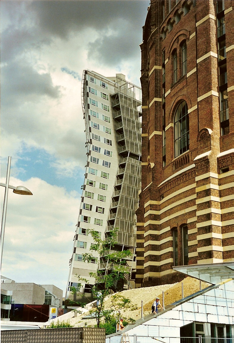 Picture made in August 2002 (scanned to PC today, 26 december 2005), showing the Highrise beside the Gasometer 2 in Vienna's Gasometer.